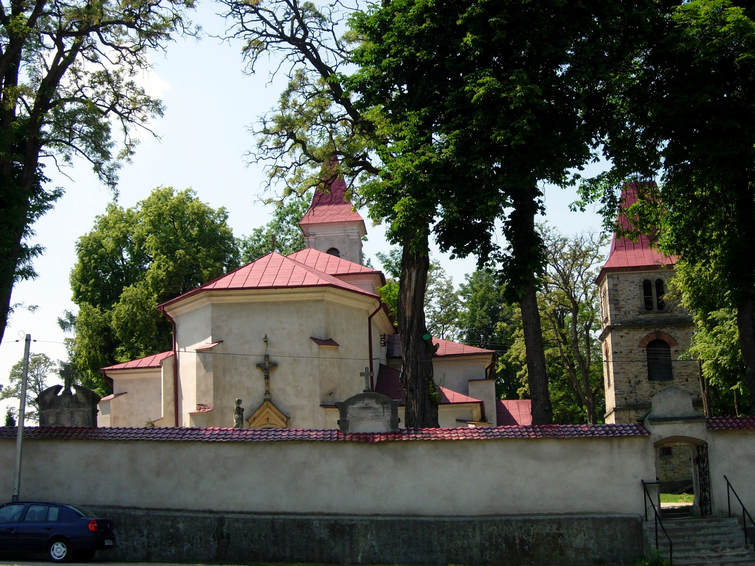 Saint Ladislaus Church in Kunów, Poland